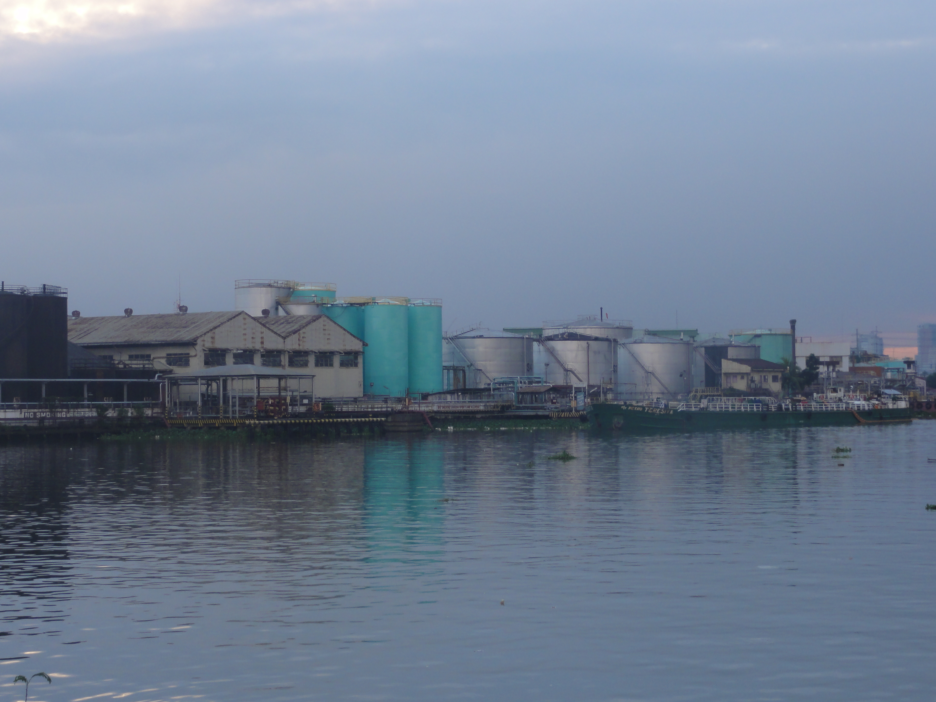 Pandacan Oil Depot as seen from Pasig River in Manila